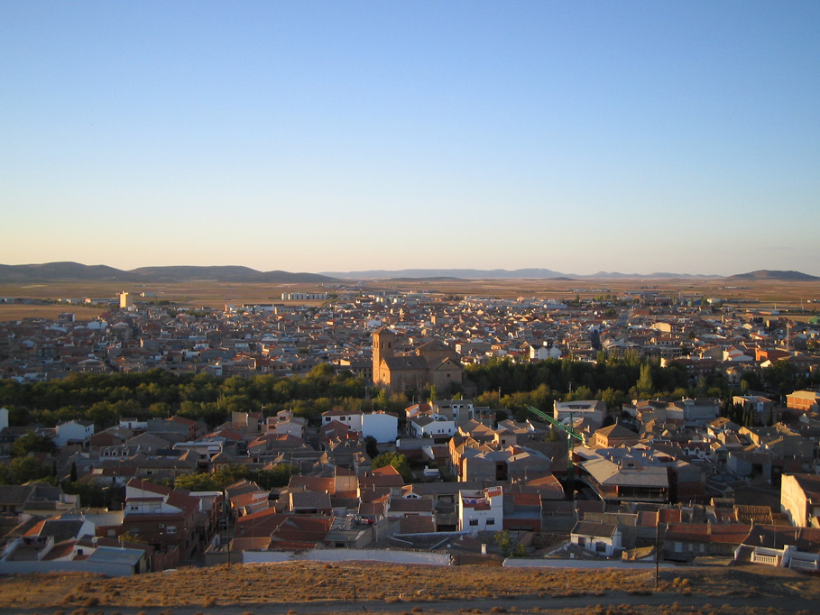 Cuty of Consuegra